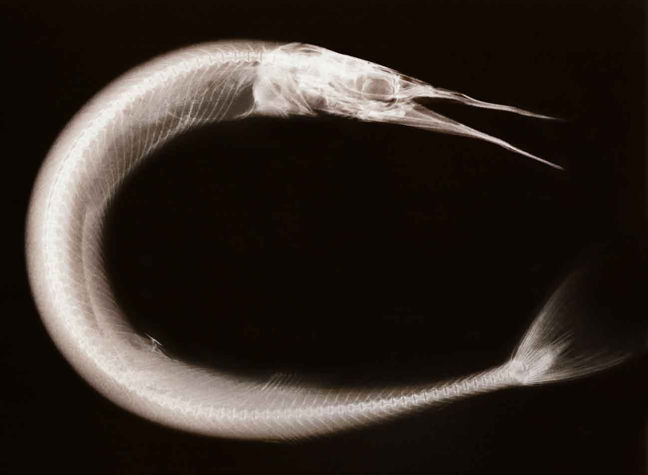 photography Dazeley xray fineart photography - see this image also at